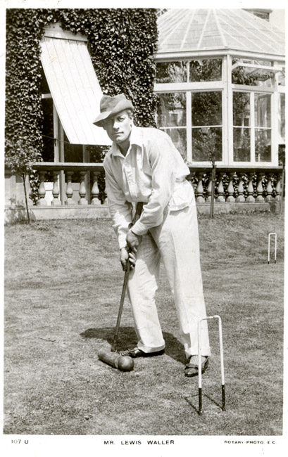 Lewis Waller playing croquet